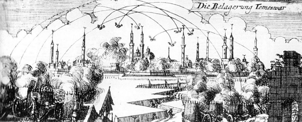 Siege of Timisoara, 1716